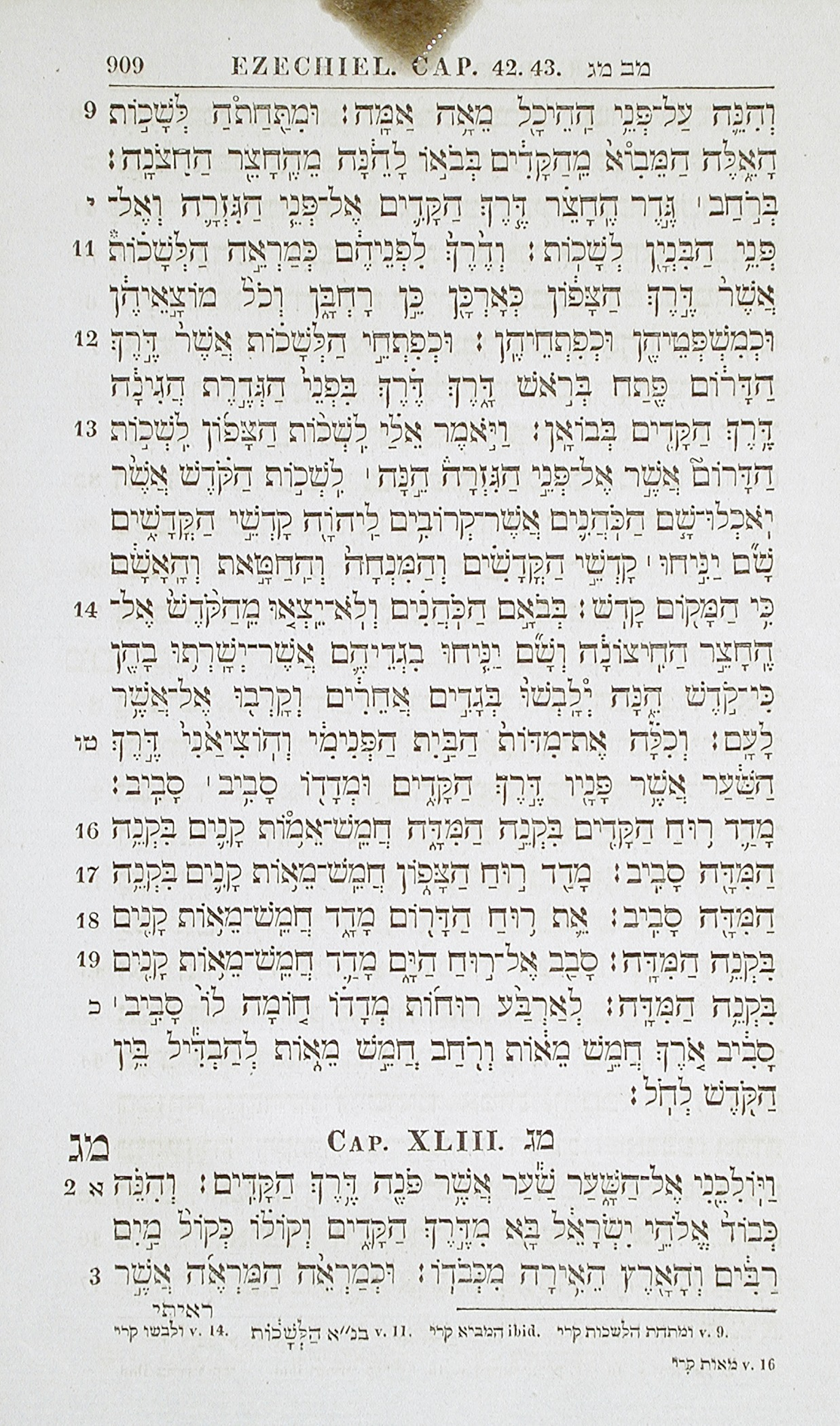 Germany, circa 1779 Prints Letterpress Gift of Abbey Rents (M.64.3.16) Prints and Drawings